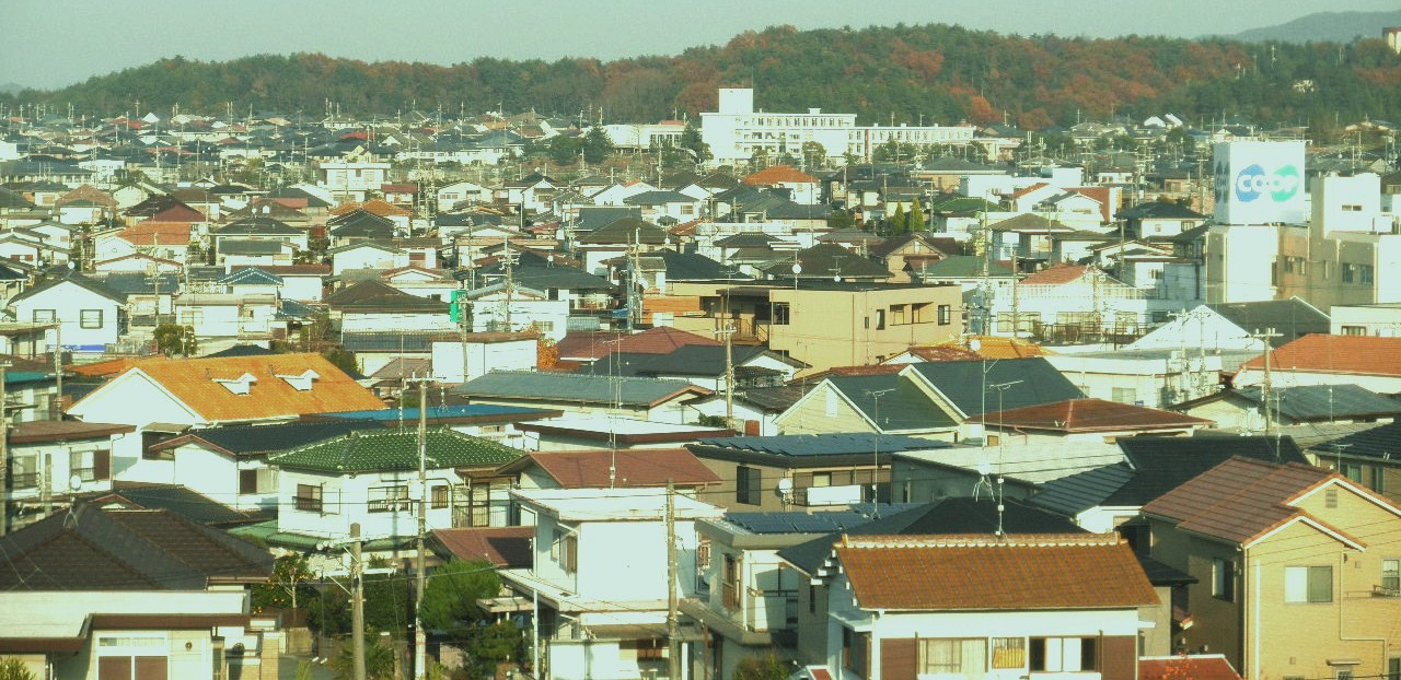 Midorigaokatown Mikicity Hyogopref background